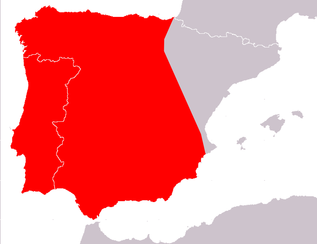 Distribution map of Talpa occidentalis.